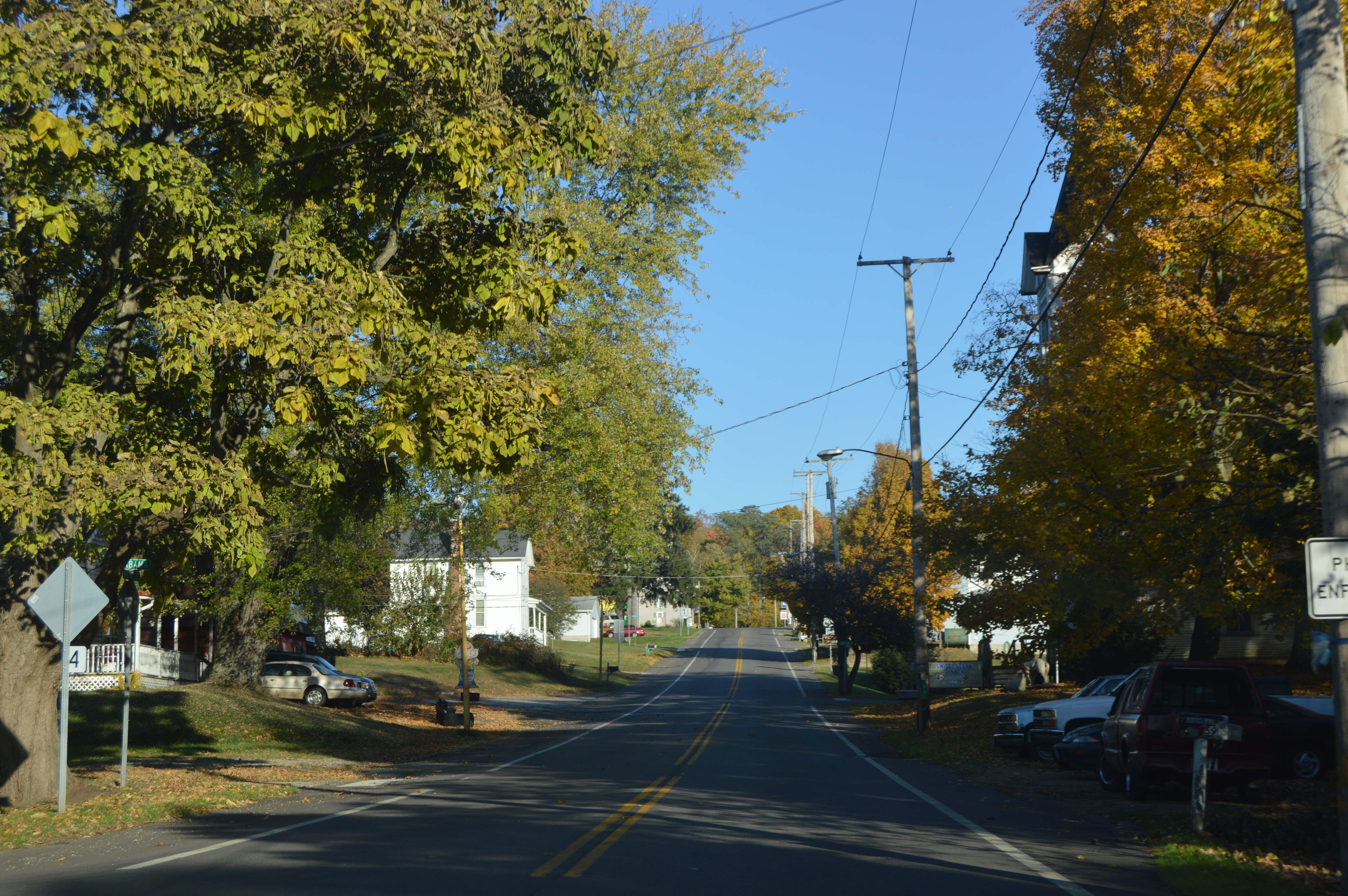 Looking eastward on Maine Street (State Route 603) from the Alabama Street intersection in Mifflin, Ohio, United States.